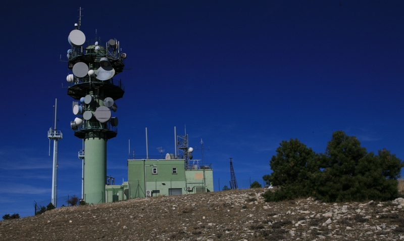 "Relais" (? in UK) on the "Grand" (tall) Luberon (84), France.